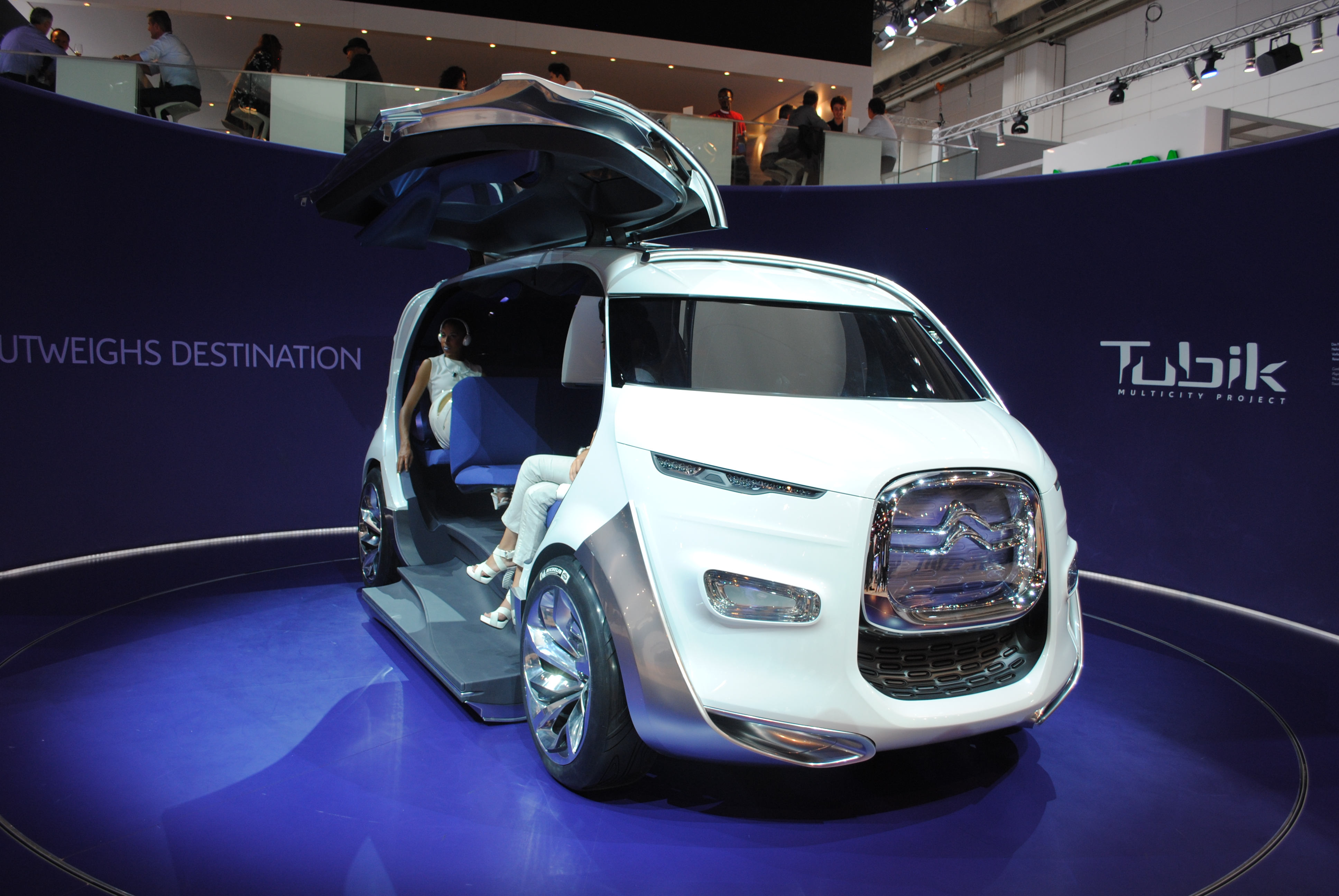 For more images + info, check